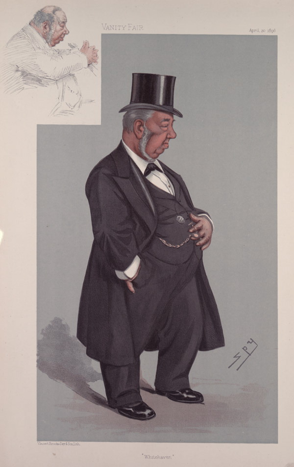 Statesmen No.669: Caricature of Mr Augustus Helder MP (1827-1906), his portrait also sketched in corner. Conservative M.P. for the constituency of Whitehaven 1895-1906.. Caption reads: "Whitehaven"